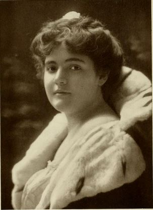 Fannie Hurst, Kandeler Photo, Johnson, Anne (André) "Mrs. Charles P. Johnson", 1871-. Notable women of St. Louis, 1914; (Kindle Location 4402). [St. Louis, Woodward.]